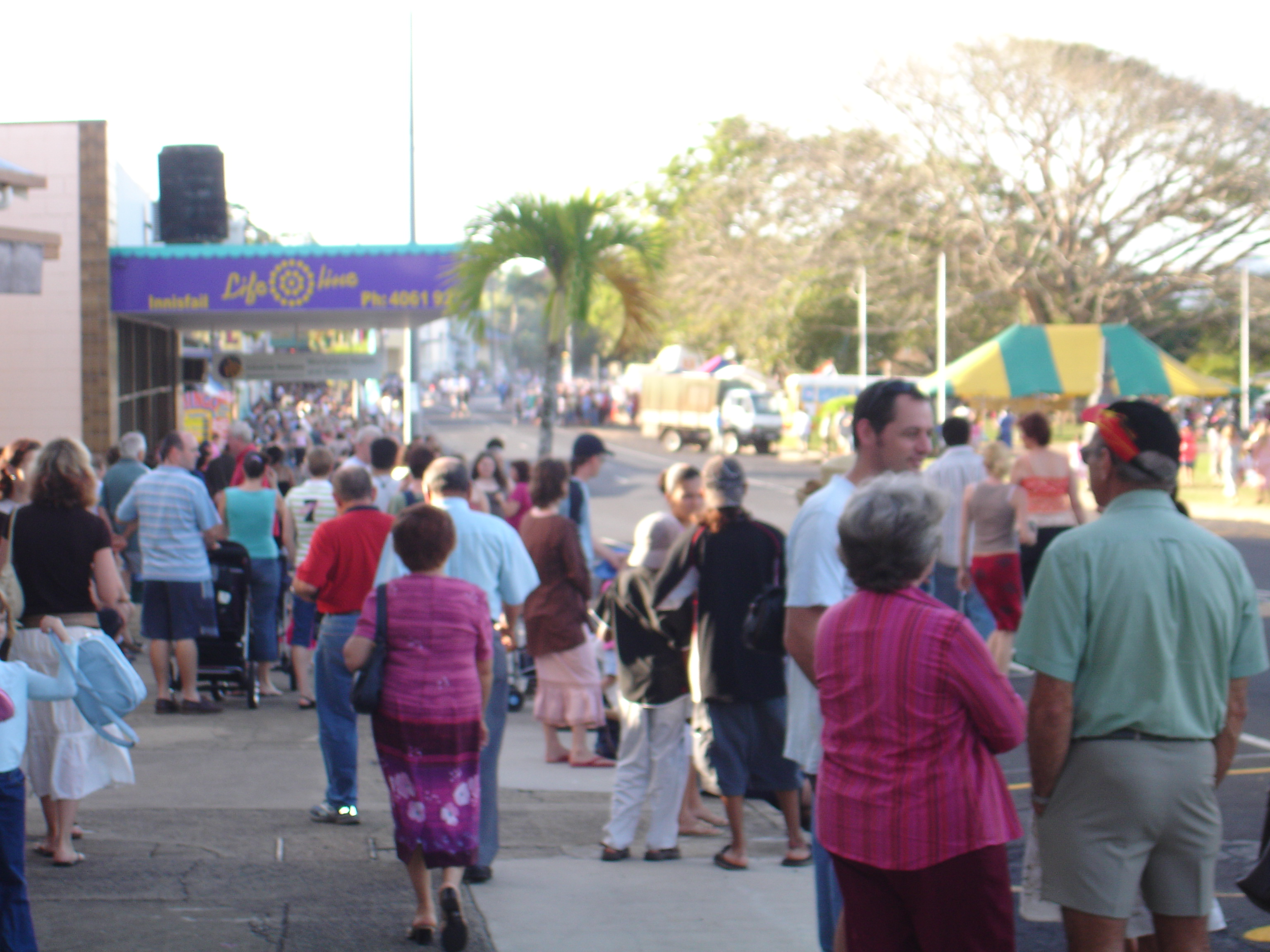 Taken by myself, to illustrate Innisfails events